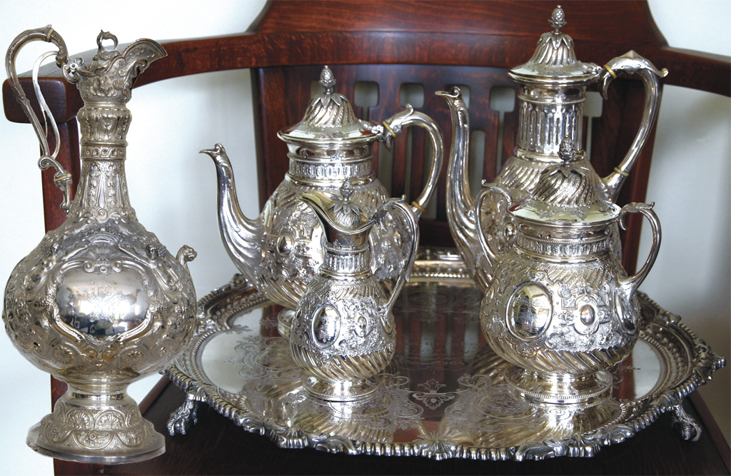 Silver service presented to Michael Rush, champion sculler, in Sydney on 3 October, 1881, by his admirers.